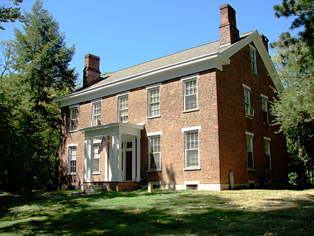 Raintree House, 112 N Bryan Avenue, located on the eastern edge of the Indiana University campus in Bloomington, Indiana. (Also known as the Millen-Stallknecht House.) Since 1970, Raintree House has been the headquarters of the Organization of American Historians.